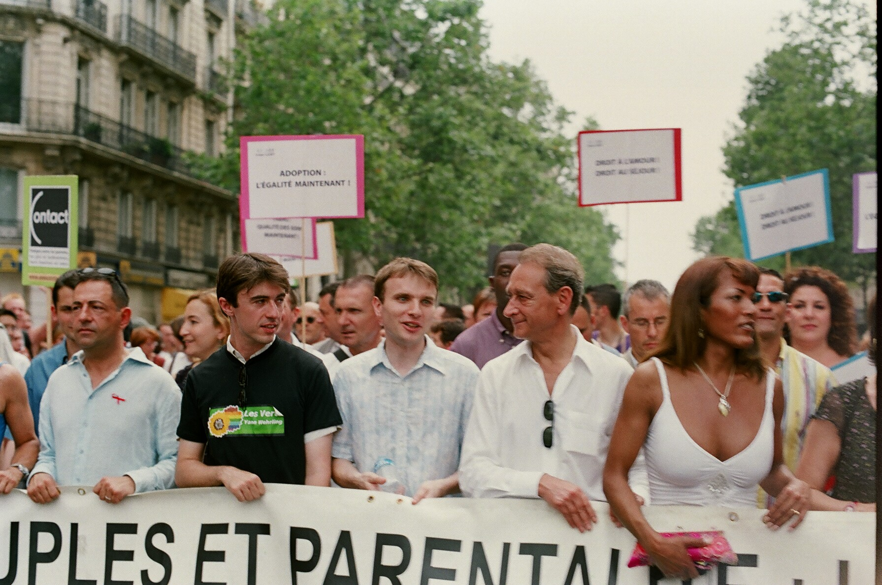 Gay Pride at Paris. Jean-Luc Romero, Yann Wehrling, Alain Piriou, Bertrand Delanoë